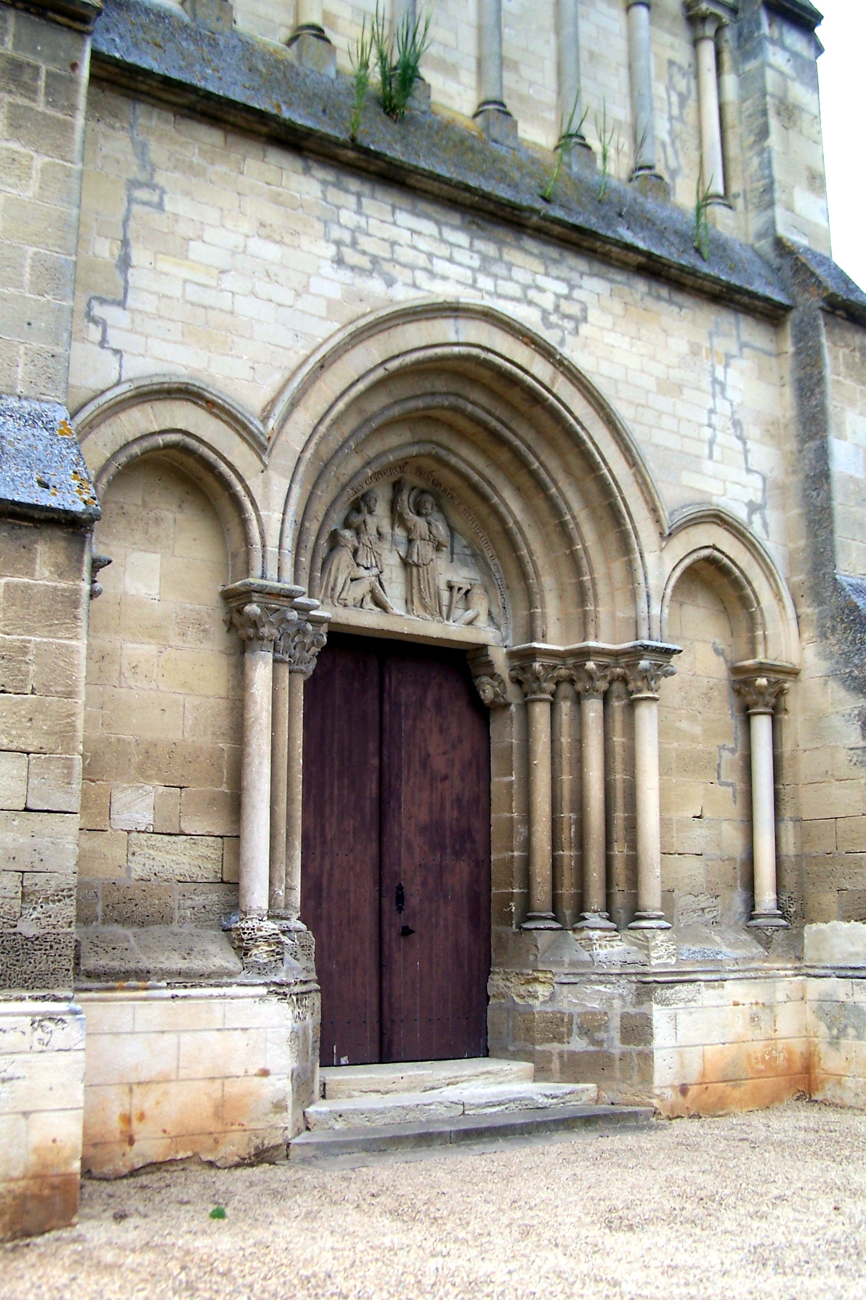 Church Saint-Pierre of Abzac (Gironde, France)